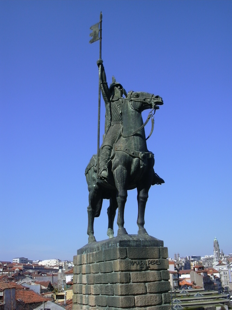 Statue of Vimara Peres [Oporto-Portugal].